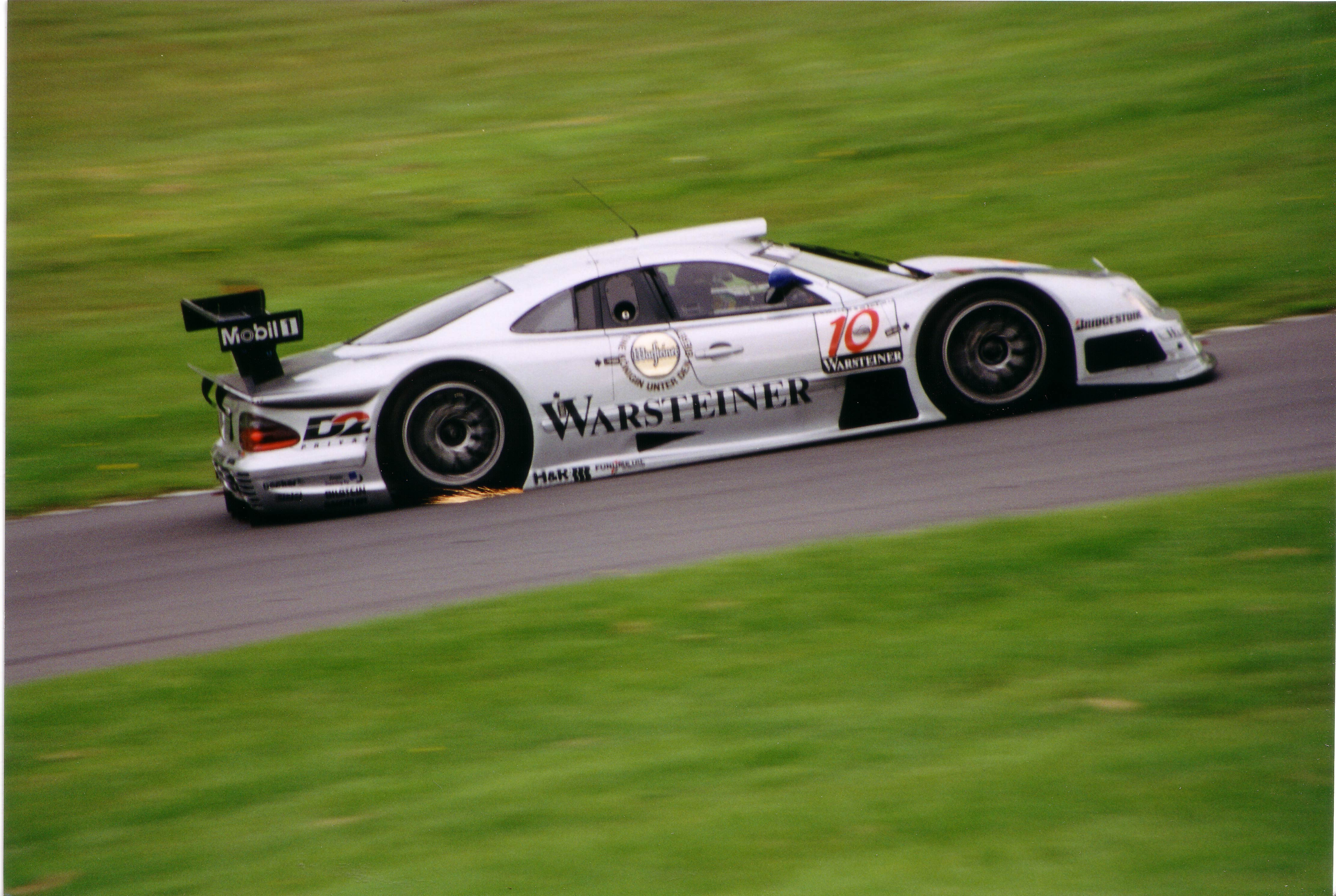 Alessandro Nannini Donnington 12/9/1997 Scanned from 35mm Canon EOS 100